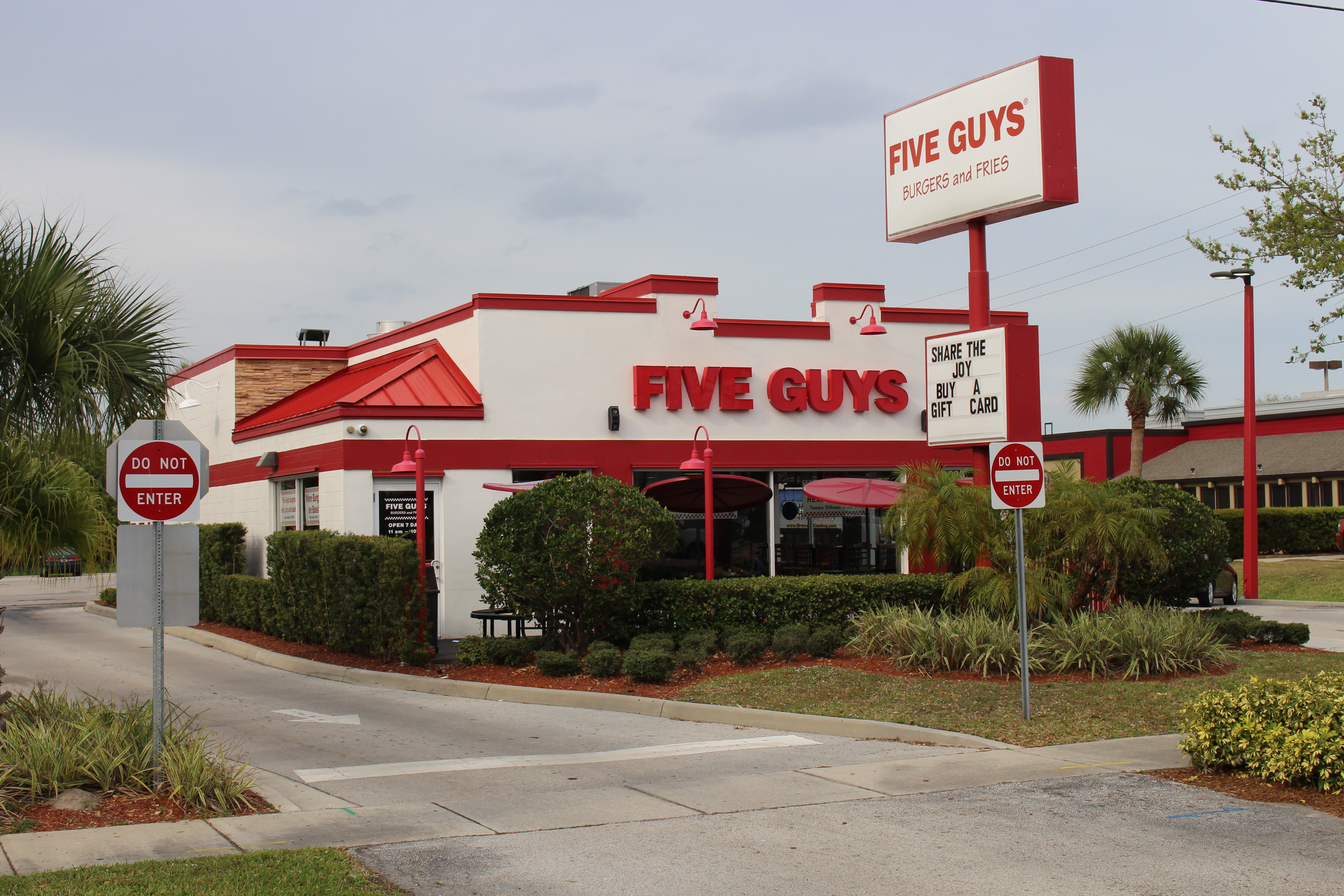 Chilis, Merritt Island Causeway, Merritt Island, Brevard County, Florida